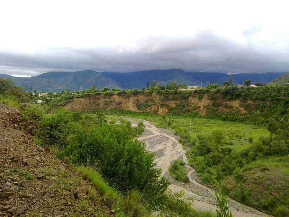 An Image of scenario